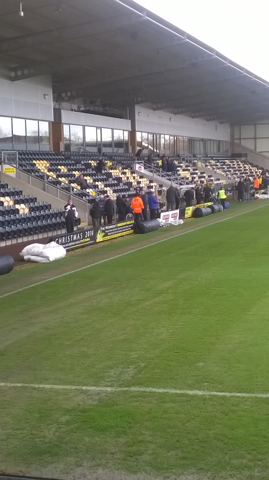 Stand at Burton Albion's Pirelli Stadium before the match against Shrewsbury (03-01-2015)